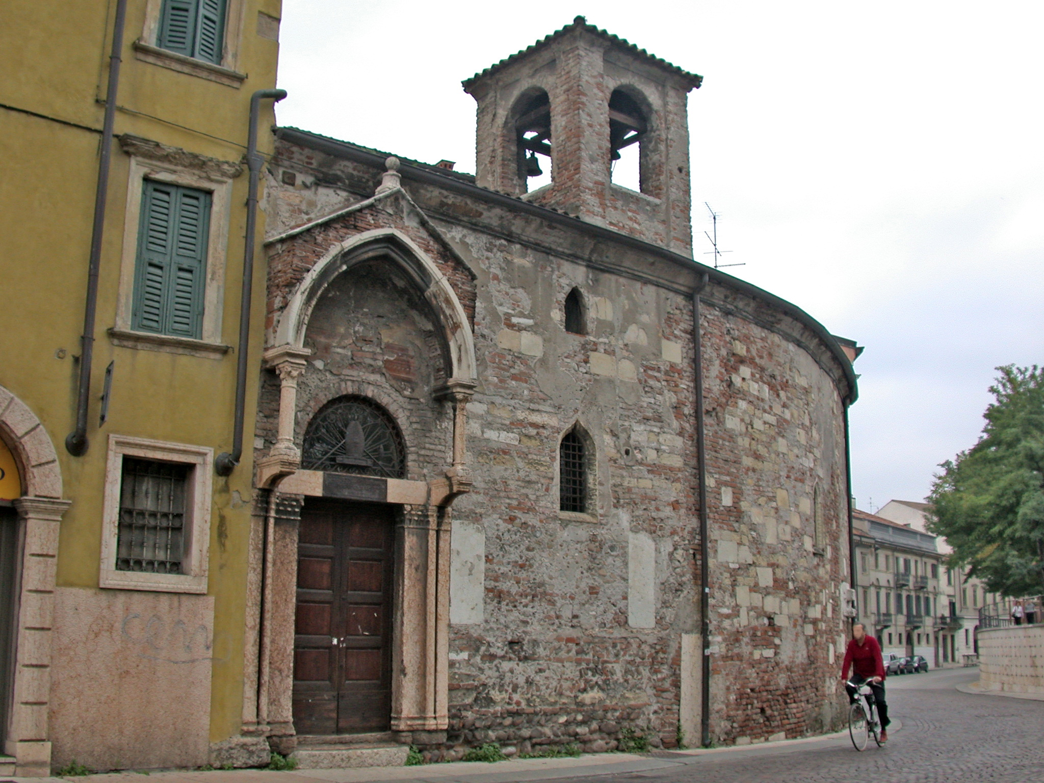 Verona, church of San Zeno in Oratorio, near the Castelvecchio